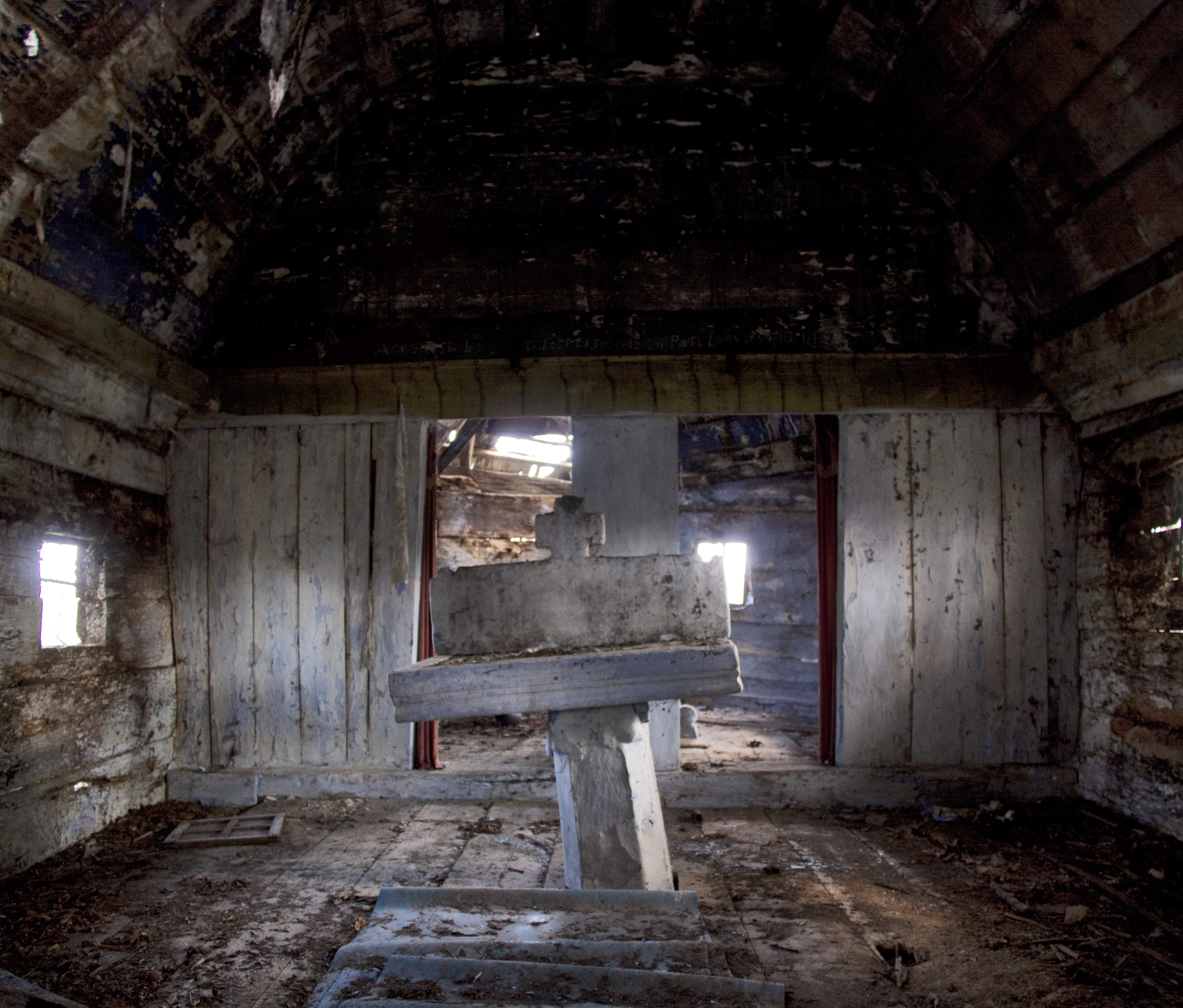 Săliştea Veche, Cluj county, Romania: the wooden church.